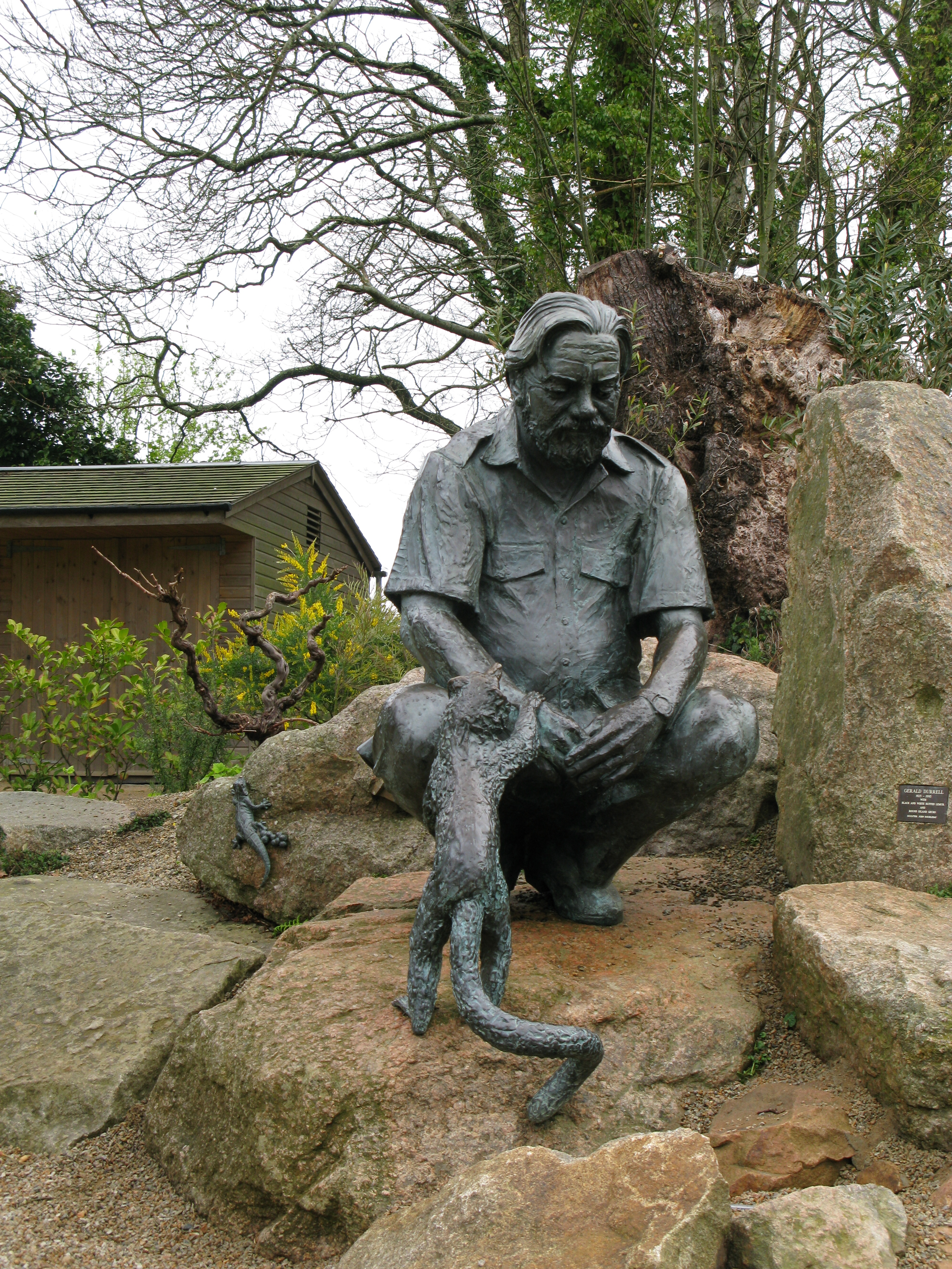 Statue at Jersey Zoological Park of Gerald Durrell with a Black-and-white Ruffed Lemur (Varecia variegata), and a Round Island day gecko (Phelsuma guentheri). Jersey.